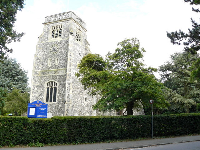 Woldingham Church Imposing church in this sprawling village.